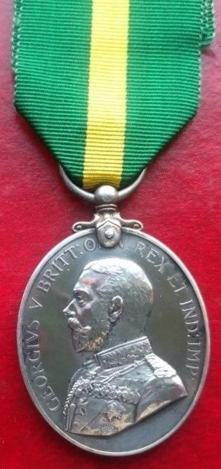 British award for 12 years service in the Territorial Force, awarded from 1921-30